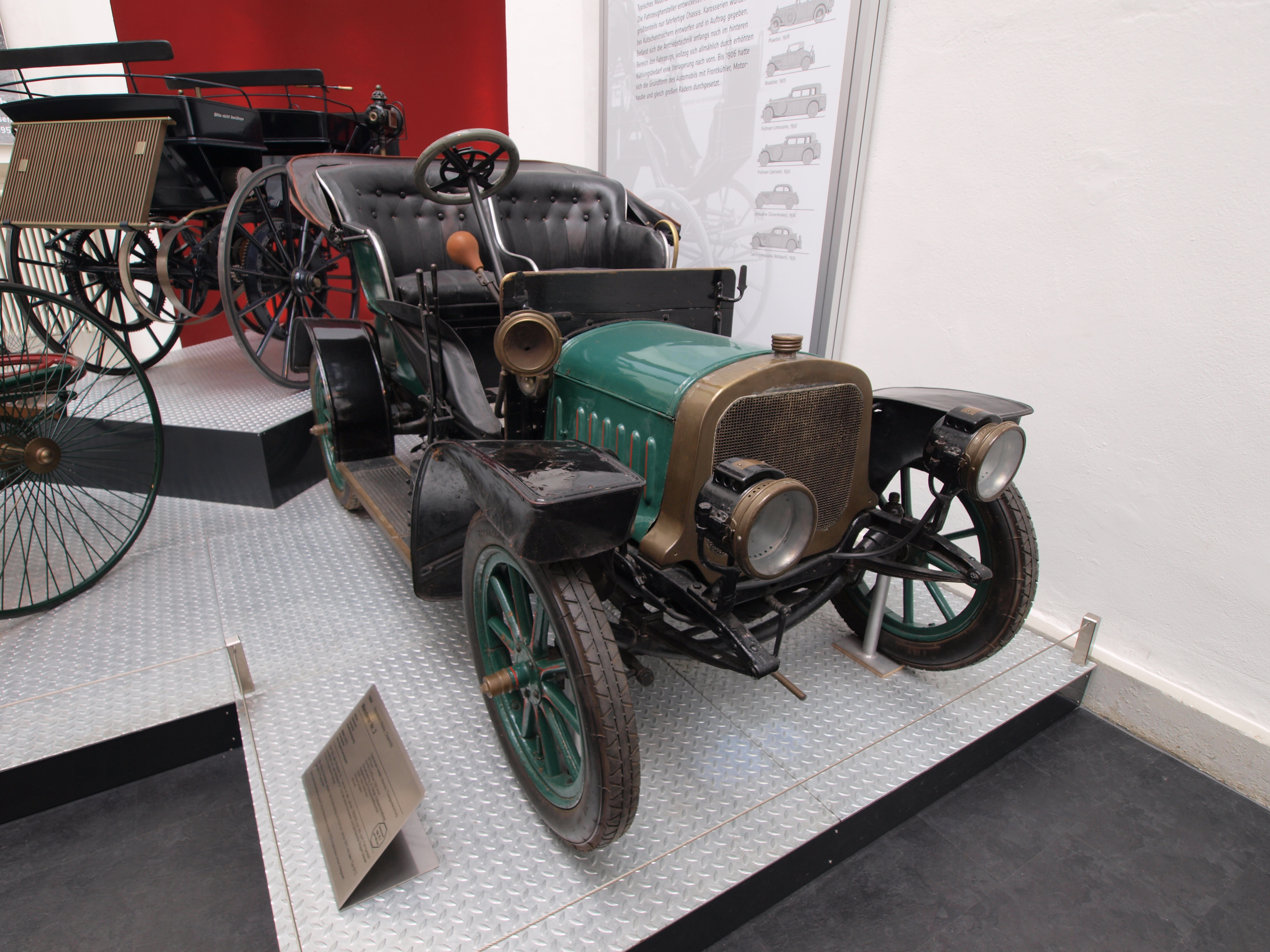 Photo taken without a tripod (was not permitted!) 1904 Wanderer Nr2